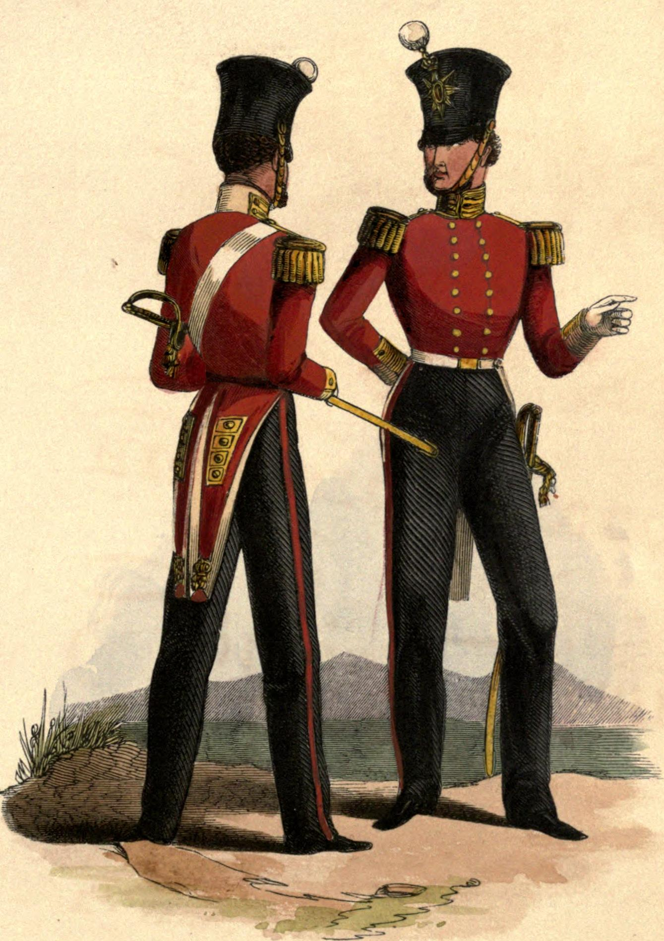 Uniform of the 14 Foot.